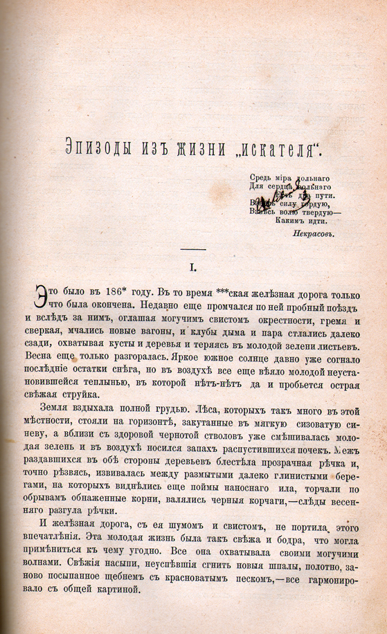 «An episode from the adventure seeker life». A story by Vladimir Korolenko in ‚Slovo‘ magazin